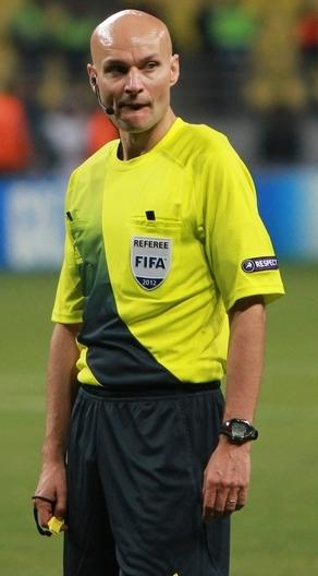 Tony Chapron refereeing UEFA Champions League game between FC Spartak Moscow and Celtic FC.